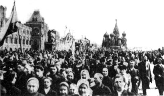 Volksprozession